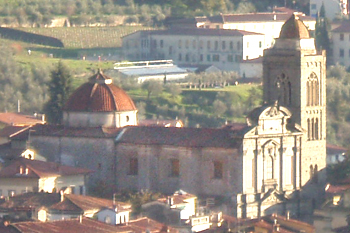 Cathedral in Pescia, Italy